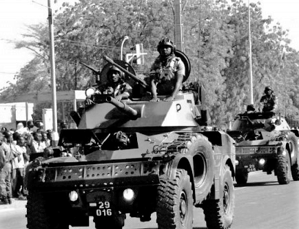 Cropped version of a previous Commons image. Panhard AML-60 armoured car. Cropped to produce a more relevant image for the specific vehicle depicted. Limited contextual relevance to original work.